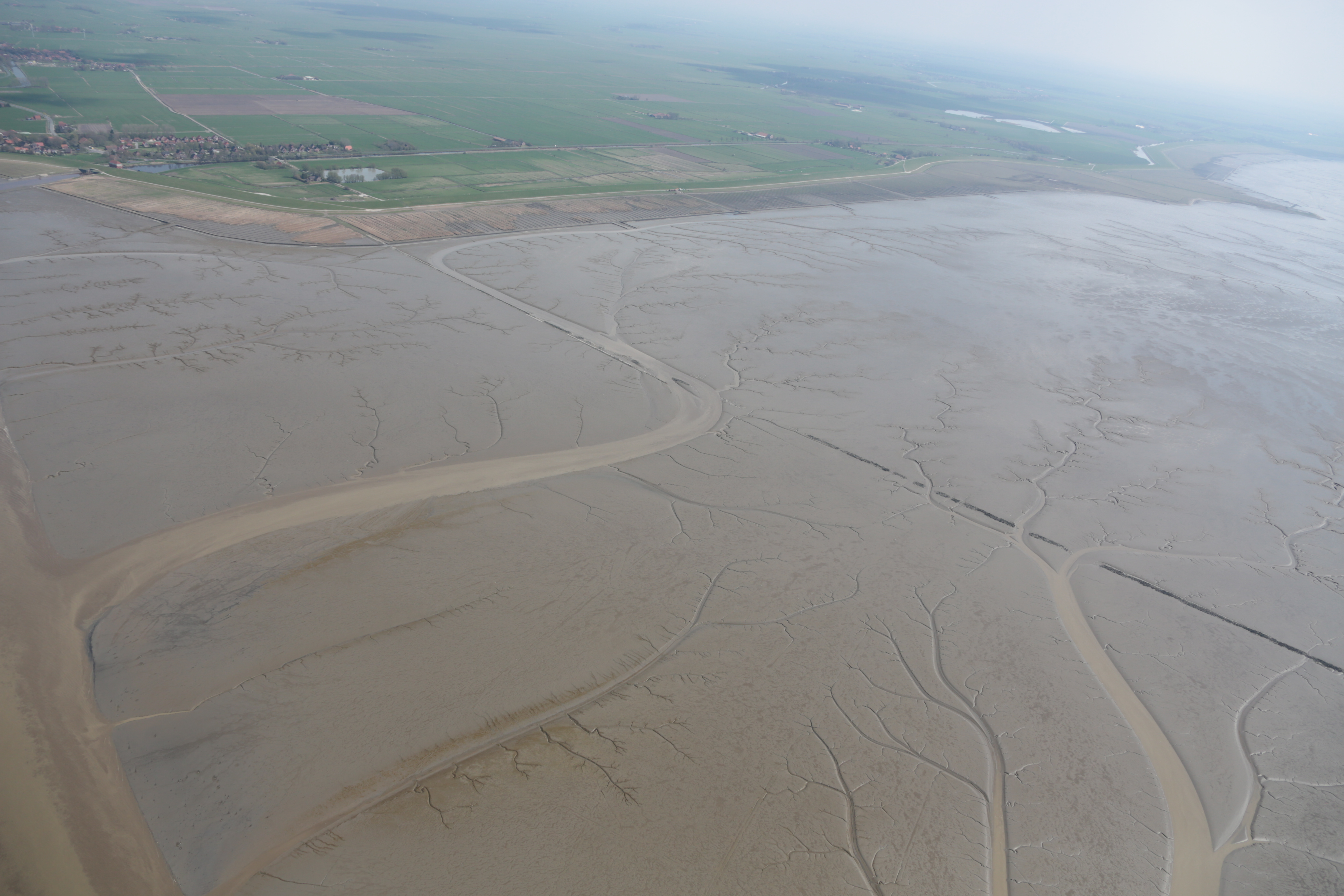 Fotoflug von Nordholz-Spieka nach Oldenburg und Papenburg This photo was taken by Alchemist-hp. If you use one of my photos, an email (account needed) or a message or direct to: my email account would be greatly appreciated. Please note the license terms. Other licensing terms can get discussed, too. This file is copyrighted and has been released under a license which is incompatible with Facebook's licensing terms. It is not permitted to upload this file to Facebook.